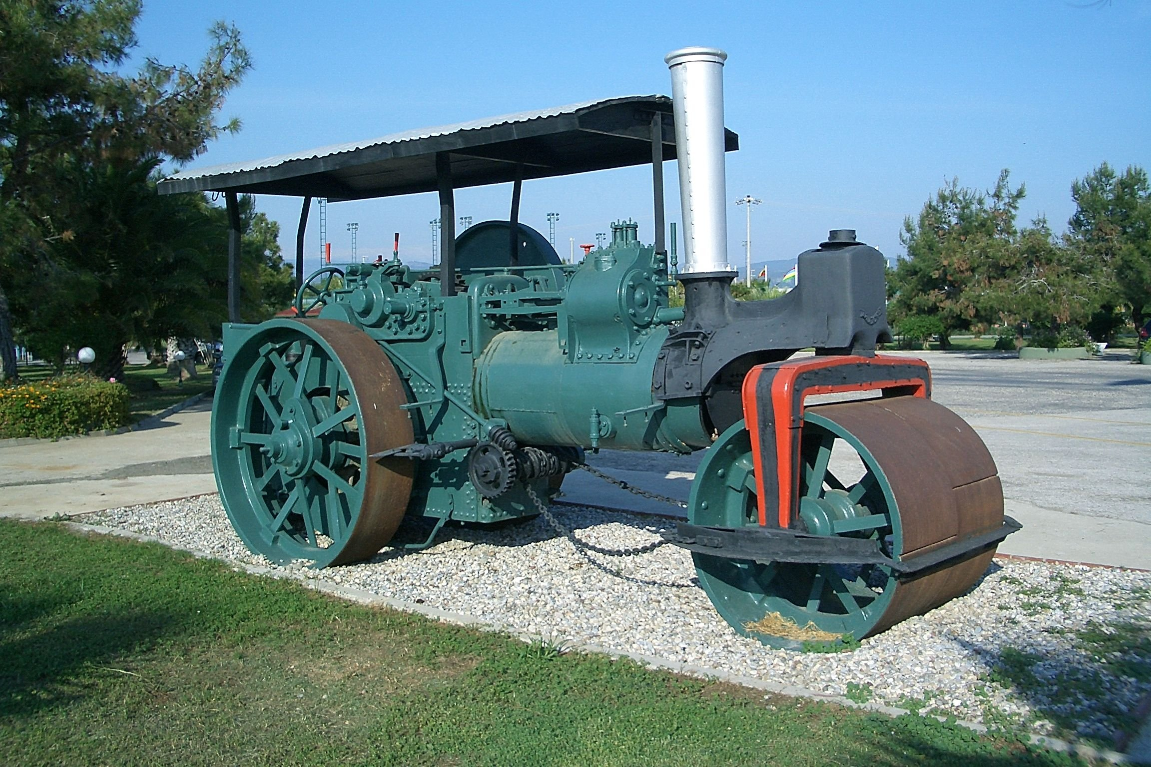 Steam roller Aveling and Porter, about 1902, right side